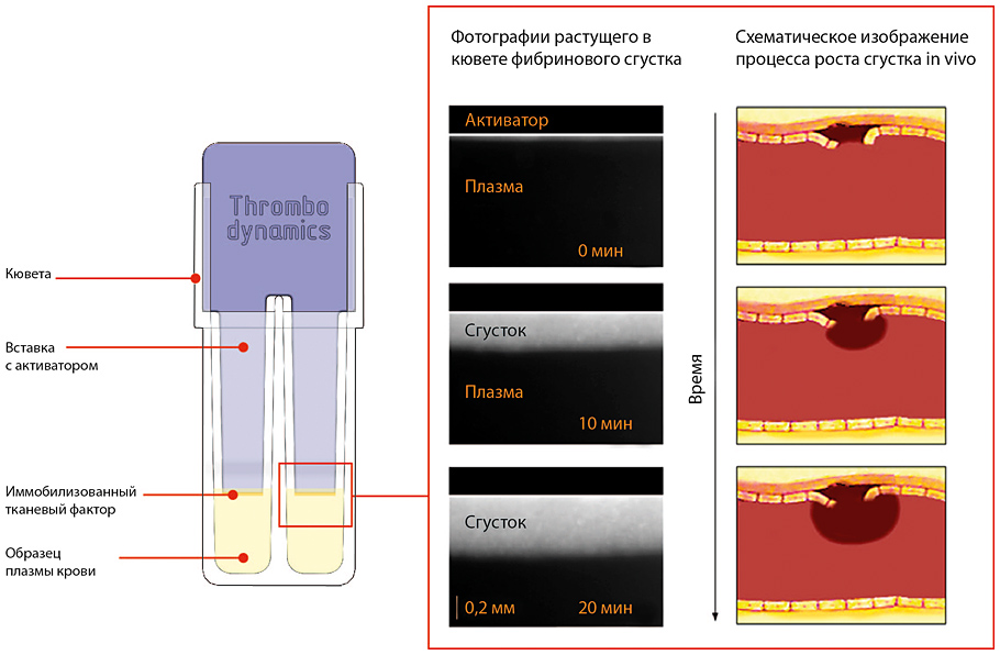 Метод тромбодинамики и типичные фотографии роста сгустка